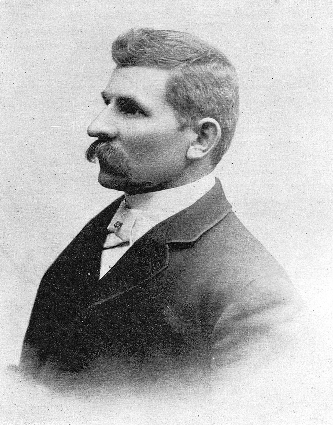 Charles Chewings, Australian geologist Source